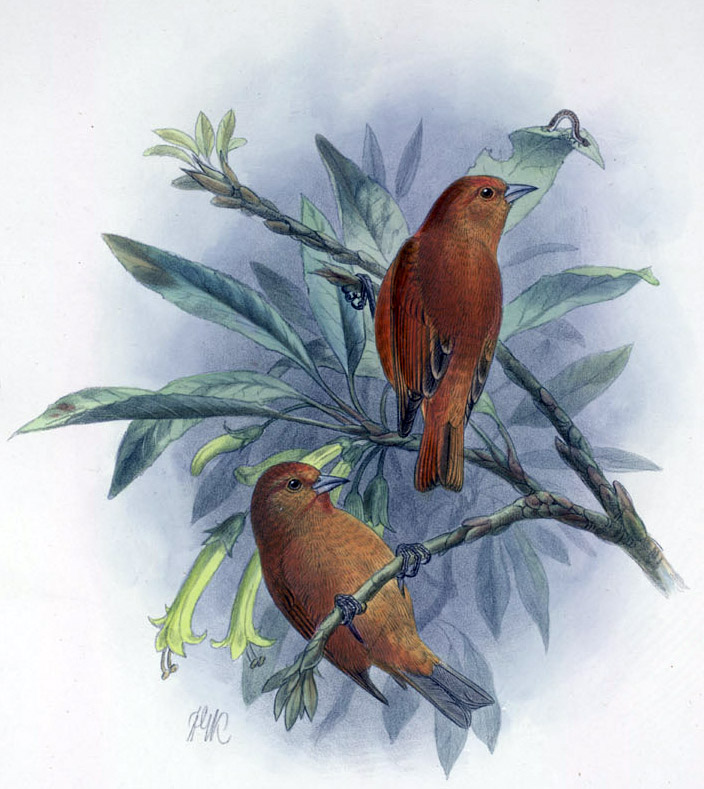 Oahu Akepa (Loxops coccineus wolstenholmei) depiction by John Gerrard Keulemans from 'The Avifauna of Laysan and the neighbouring islands with a complete history to date of the birds of the Hawaiian possession.' by Walter Rothschild from the years 1893 to 1900